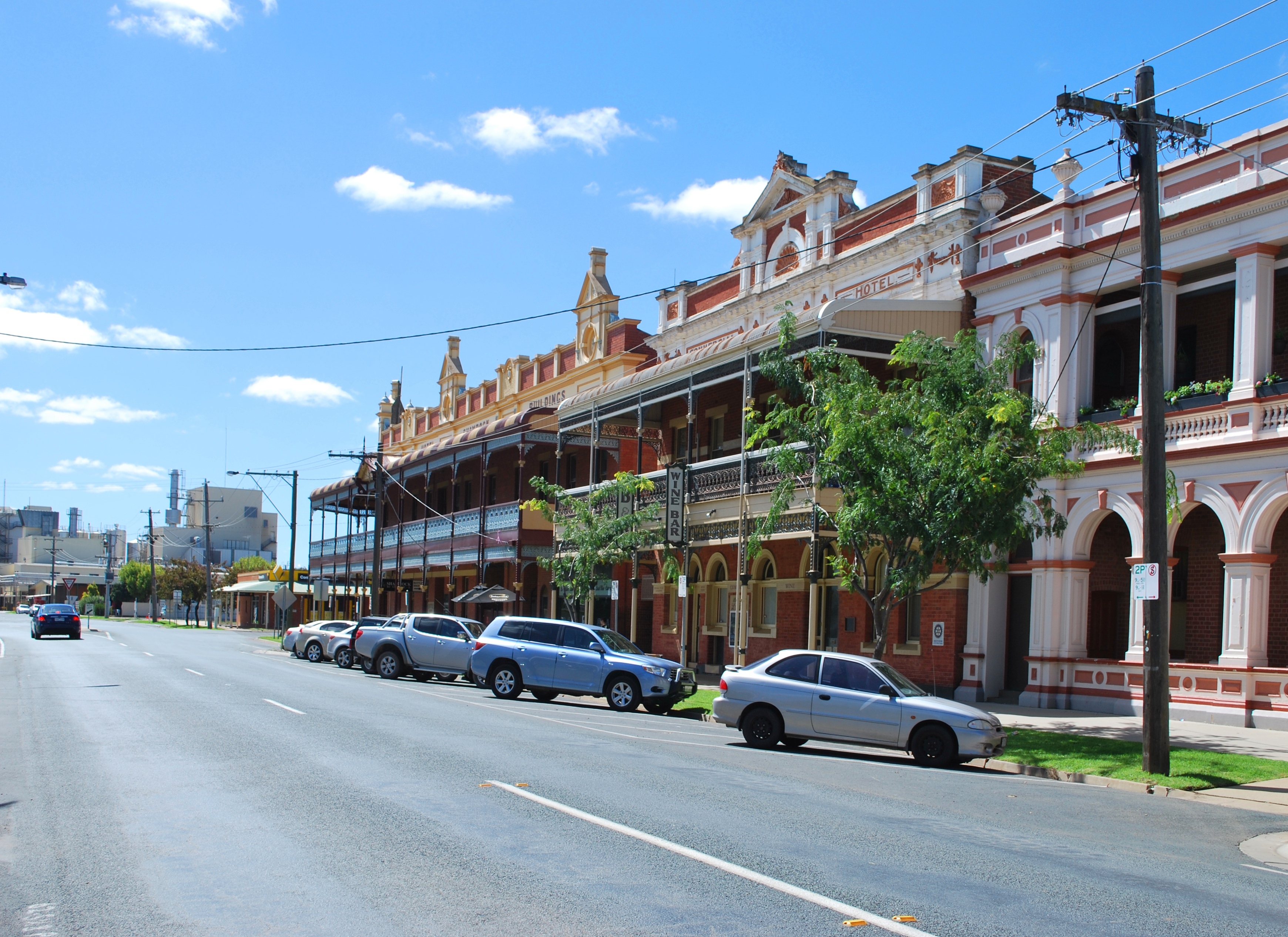 Northern Highway in Rochester, Victoria